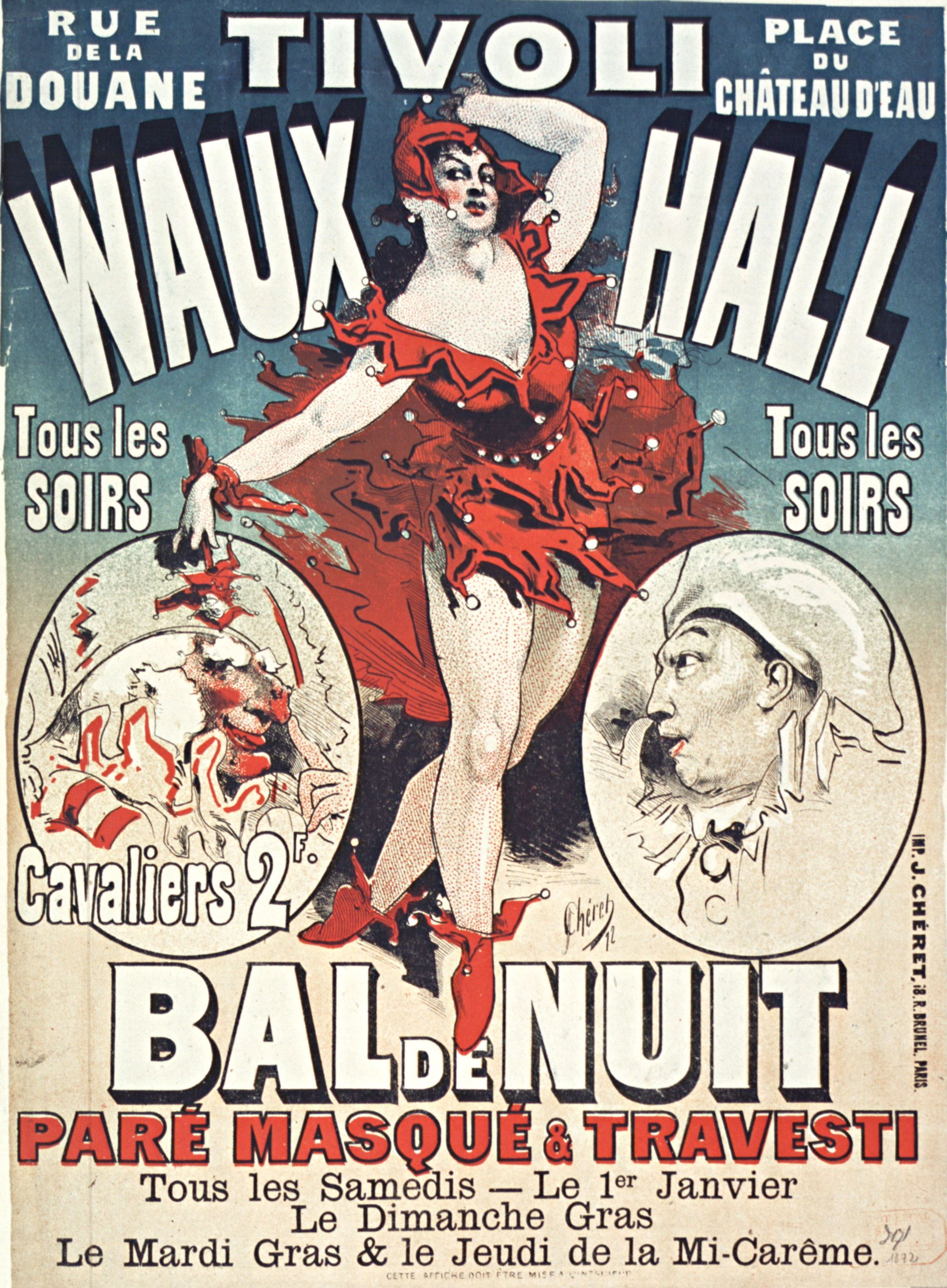 Jardin de Tivoli, Paris, in 1872. [Tivoli Waux-Hall, Tivoli Vauxhall]